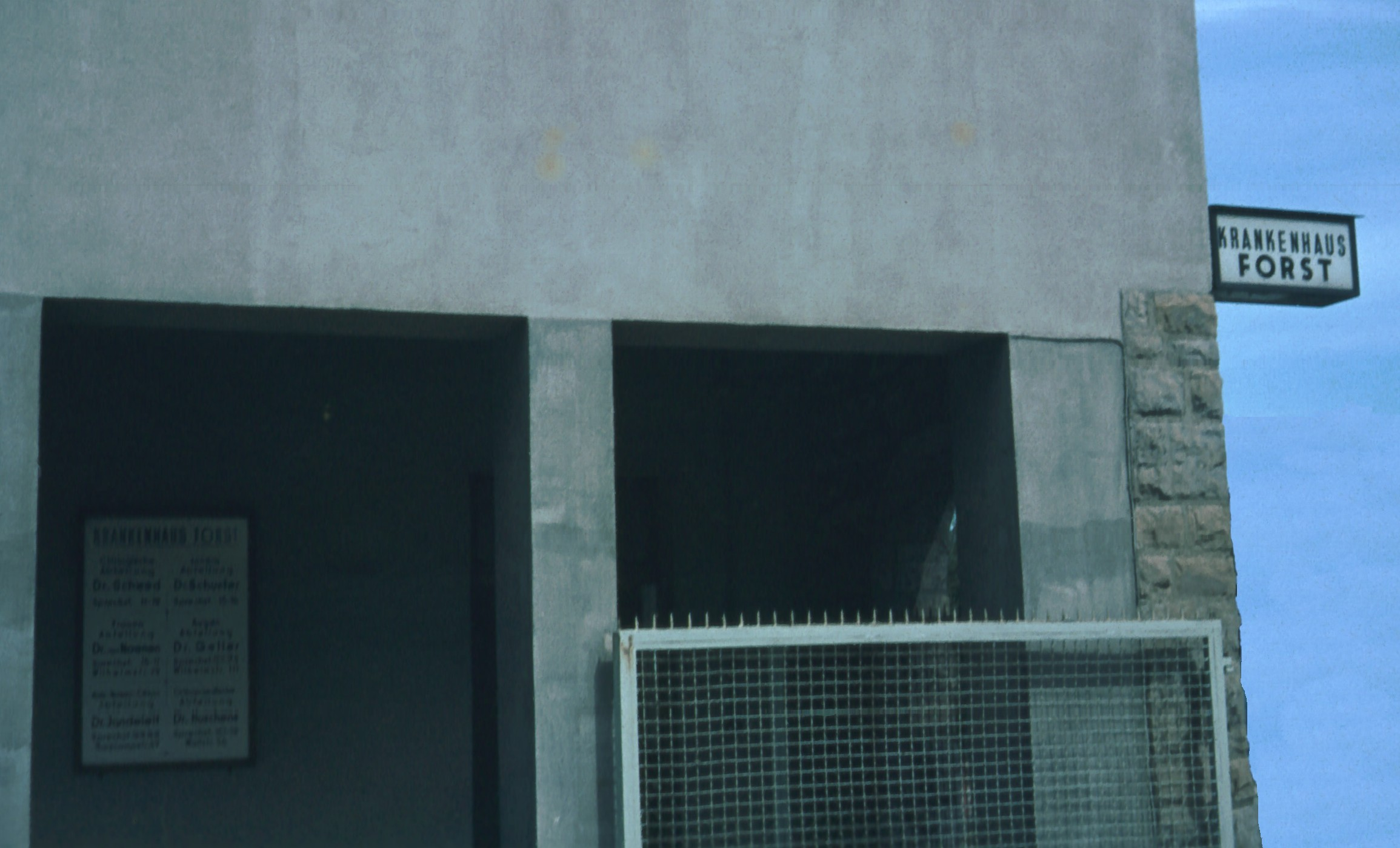 Krankenhaus Forst, Aachen